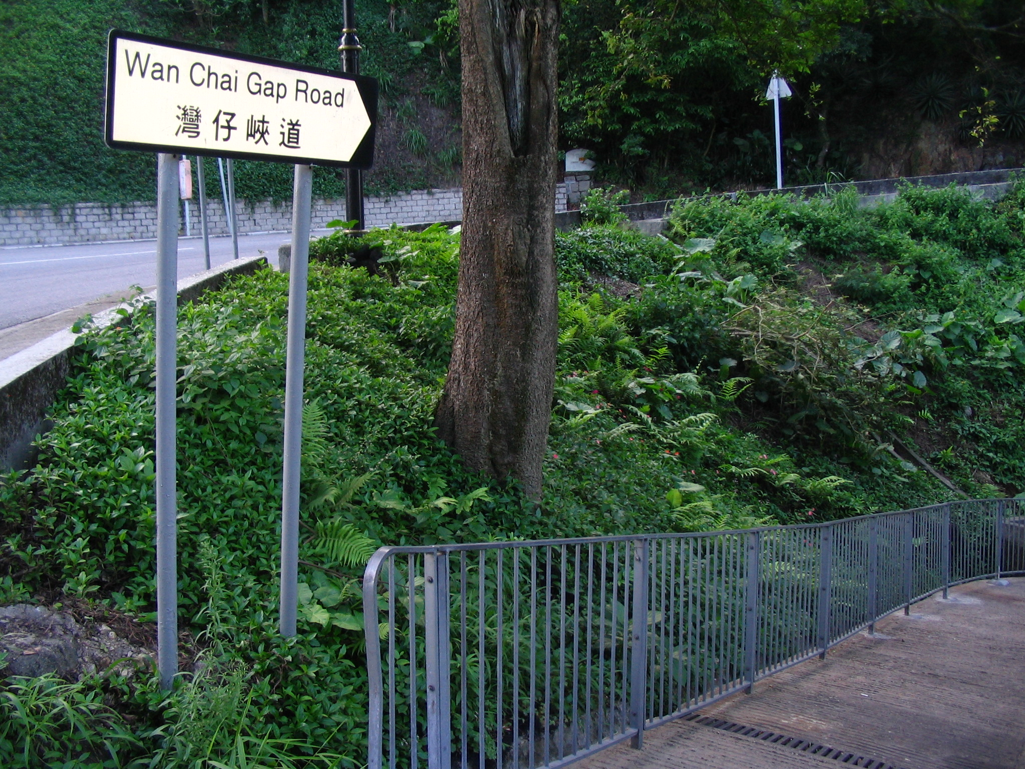 Photo of Wan Chai Gap Road